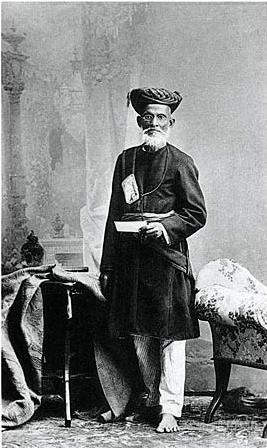 Although peons in European society were considered somewhat lowly in status, in India at the turn of the century peons were white collar employees who could rise in power and influence. Dressed in suits, they thought of themselves as men with status. They often controlled access to their employers which gave them significant power. This image reflects the newness of their profession; note the contrast between the bare feet and the letter in the man's hand.